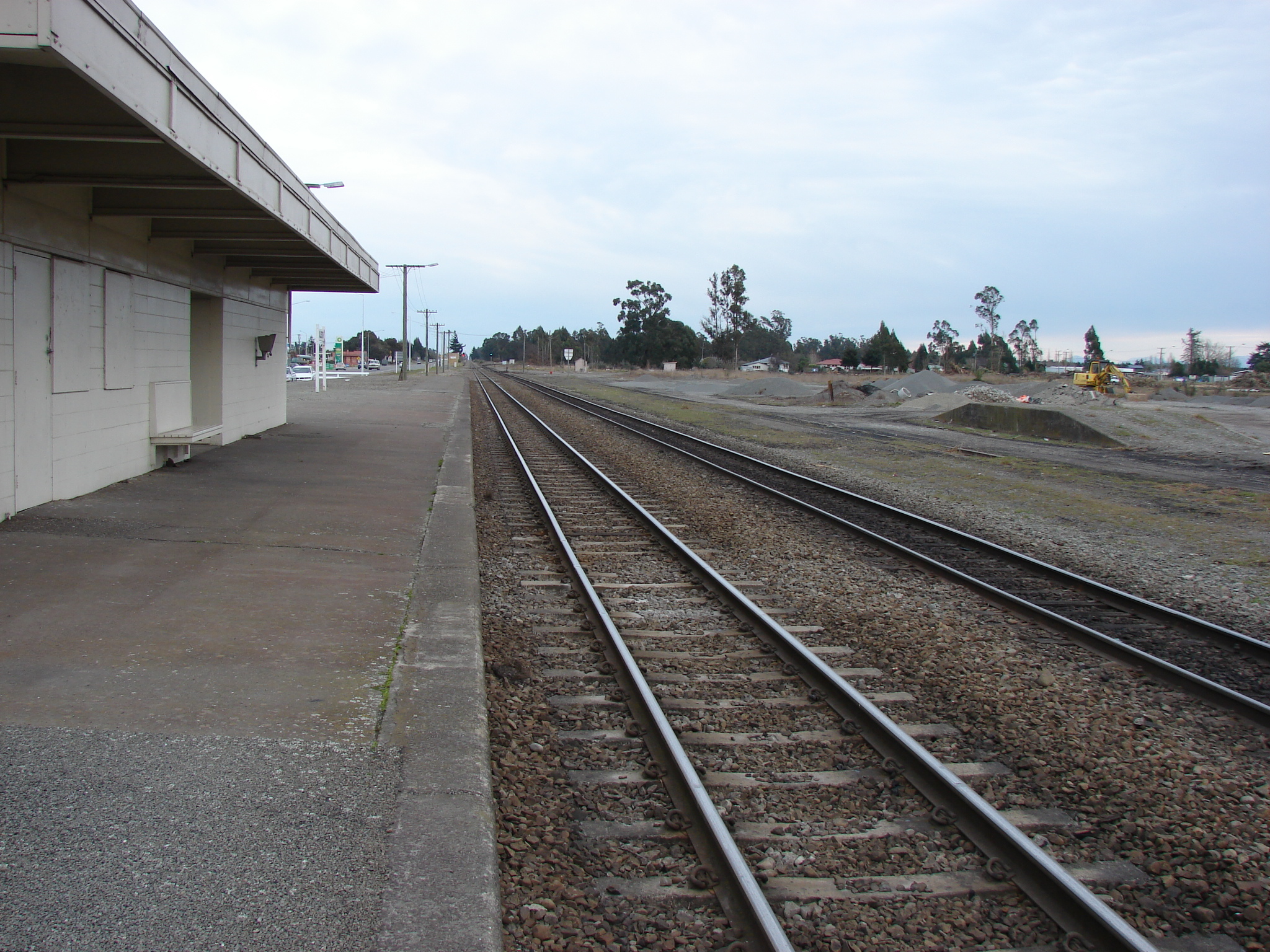 Rolleston railway station yard, looking south-west in the direction of Burnham. Photographed by Matthew25187 on 2007-07-28.